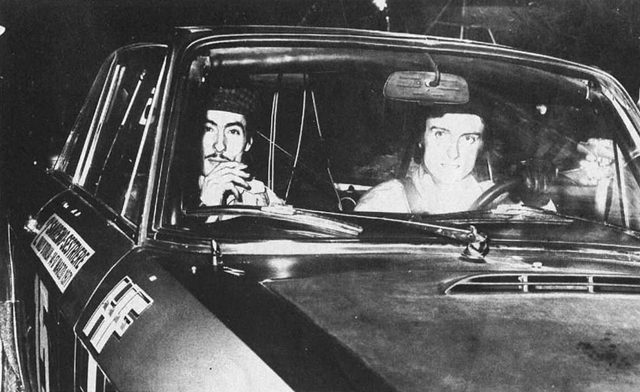 Italian rally driver Luca Cordero di Montezemolo and his co-driver Daniele Audetto on a Lancia Fulvia 1.6 Coupé HF at the start of Sanremo-Sestriere - 1971 Rallye Italy.